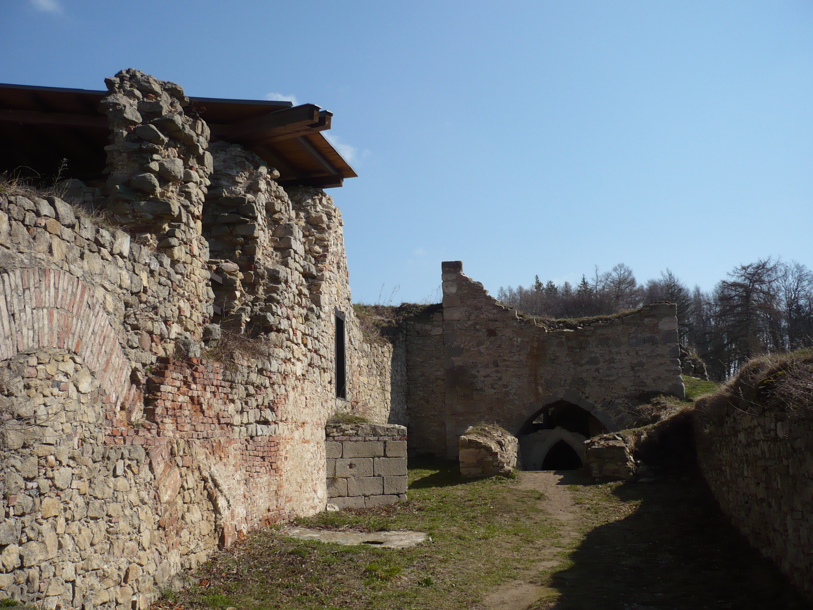 Castle Lukov, near village Lukov, District Zlin, Czech Republic